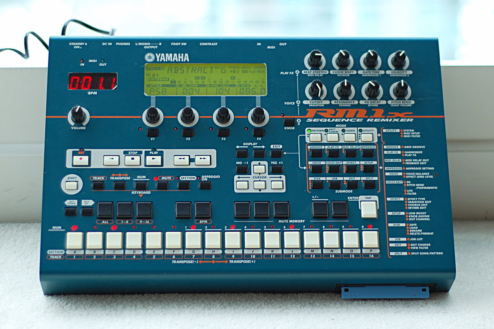 photo of Yamaha RM1x